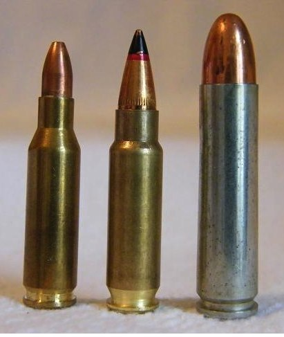 From left to right: 4.6x30mm, 5.7x28mm, .30 M1 Carbine